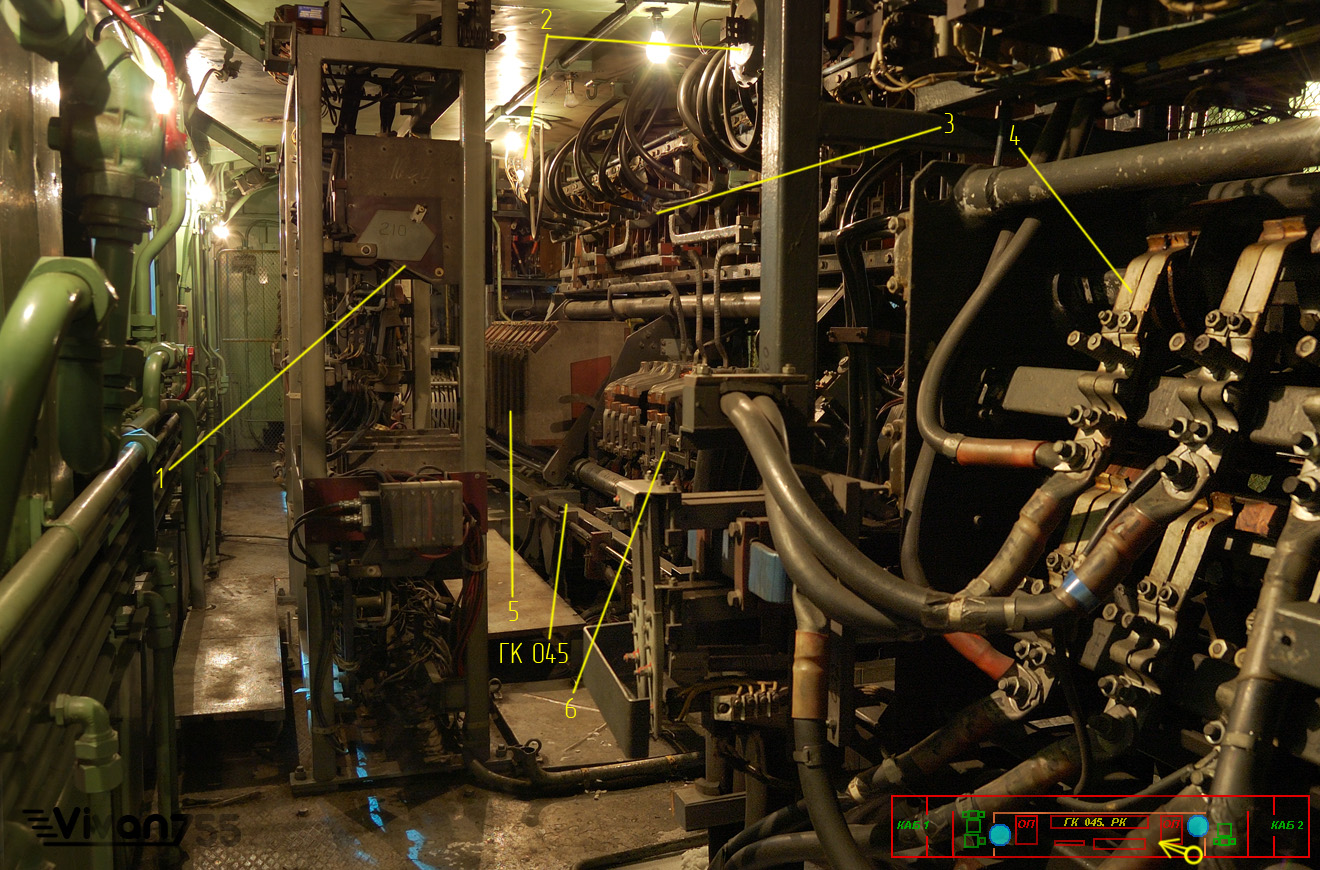 1 - aux circuits contactors, 2 - cooling flow probes, 3 - contactors of resistors, 4 - reverser, 5 - main contactors with arc control, 6 - main contactors winhout arc control, ГК 045 - main controller